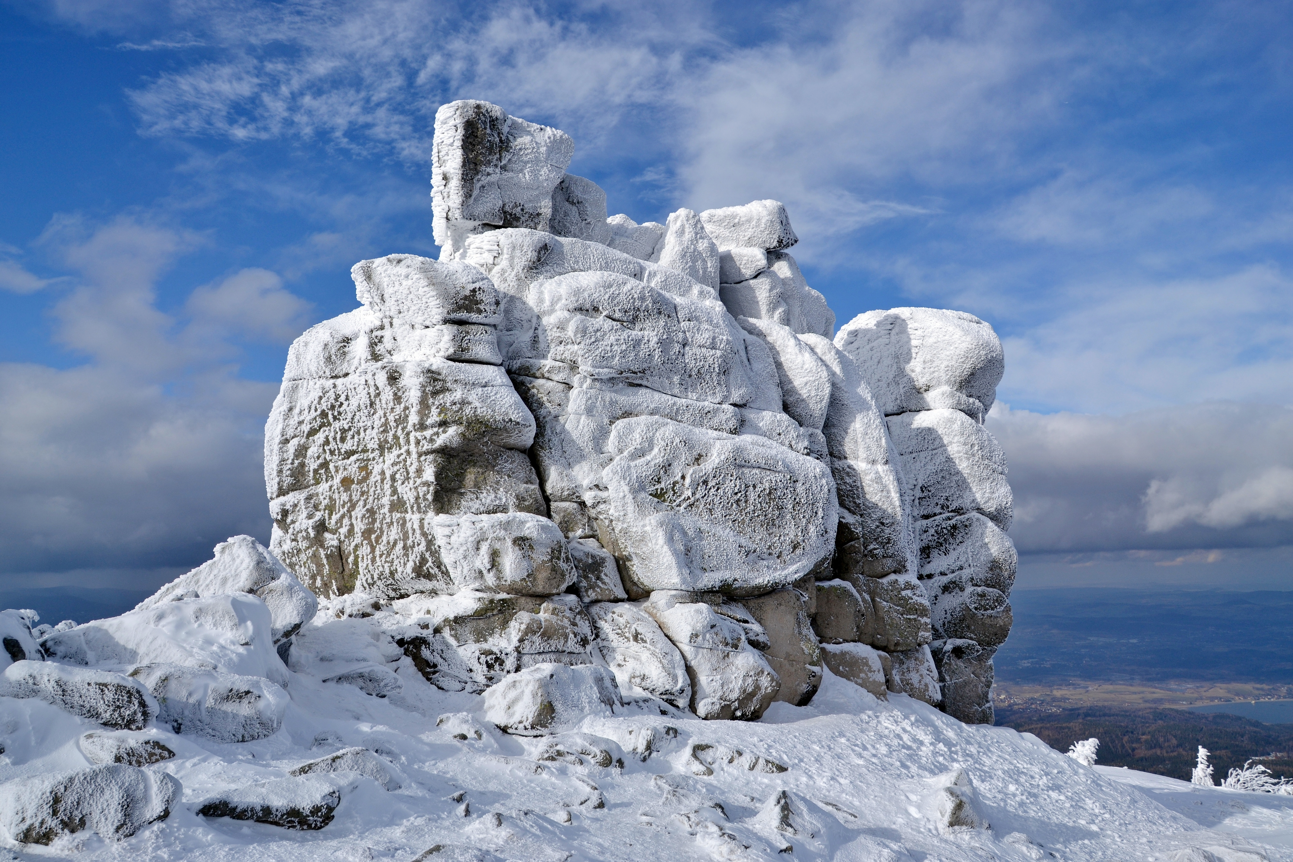 Słonecznik (Mittagstein, Polední kámen) - Karkonosze (Riesengebirge) mountains